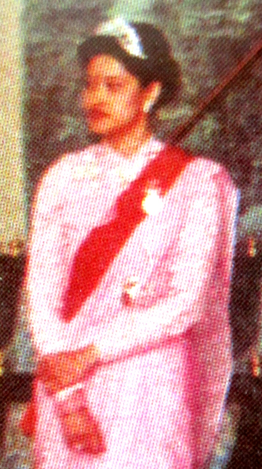 नेपाली: Royal Family of Nepal